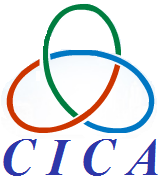 Logo of CICA